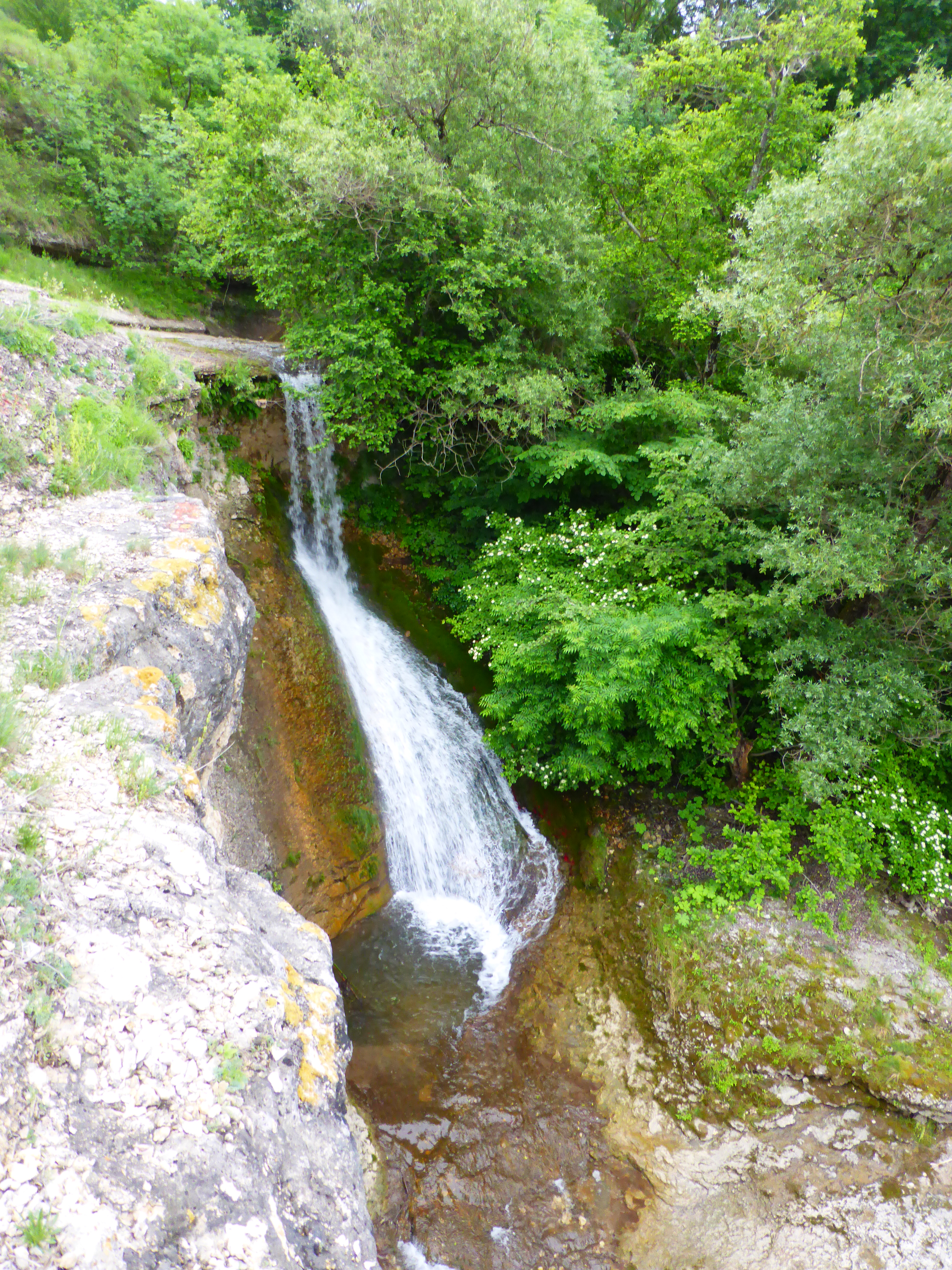 Canyon Kurlyuk